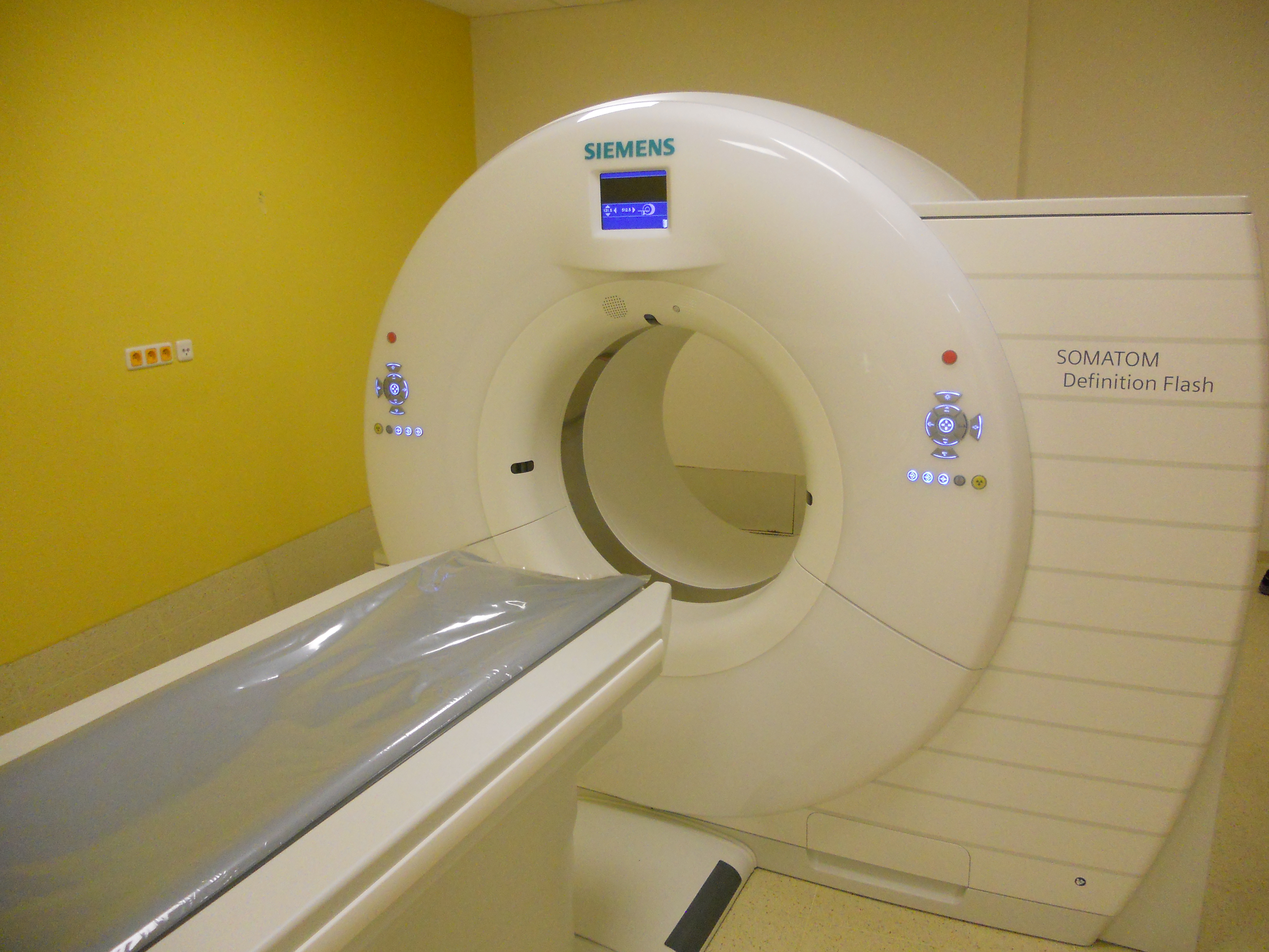 Dual-source computerized tomograph.